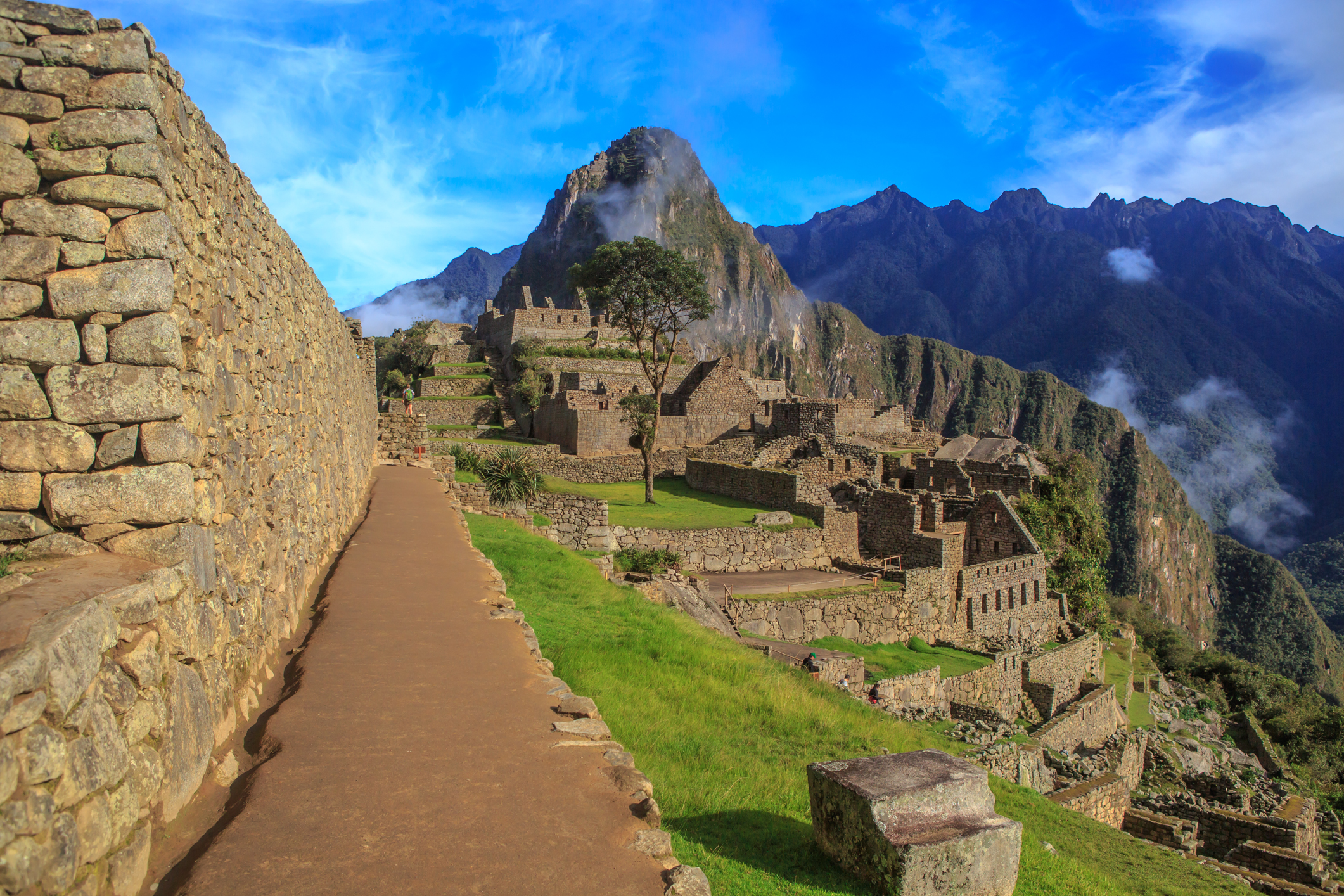 Machu picchu